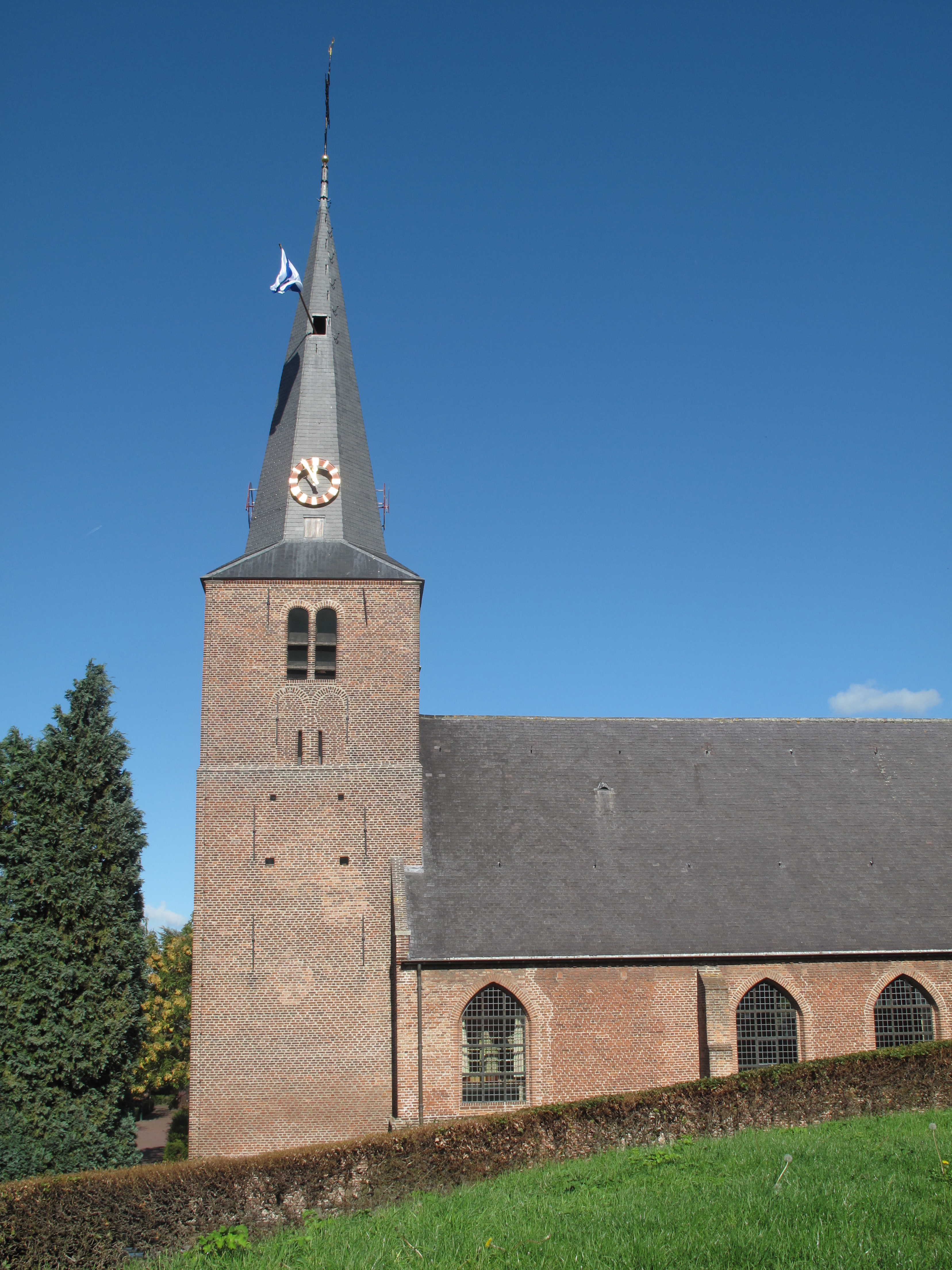 Wijk en Aalburg, tower from the reformed church